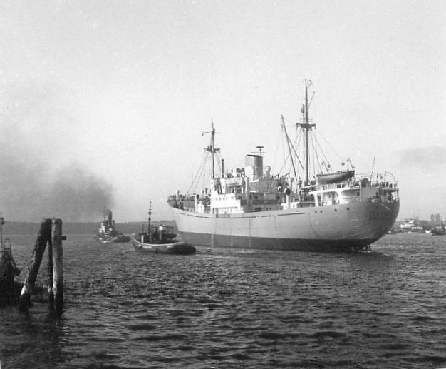 MV Bolmaren Rederi AB Transatlantic, Göteborg Swe - 1955 - Ship is on the river Trave, bound for Lübeck Ge